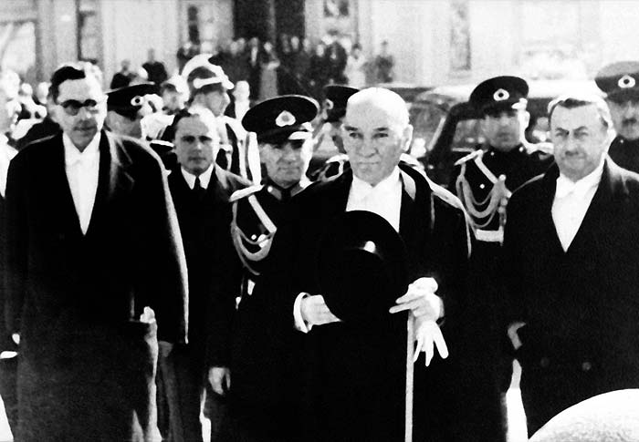 Mustafa Kemal Atatürk is entering to the Grand National Assembly of Turkey for celebrations of the Republic Day of Turkey, 29 October 1936.